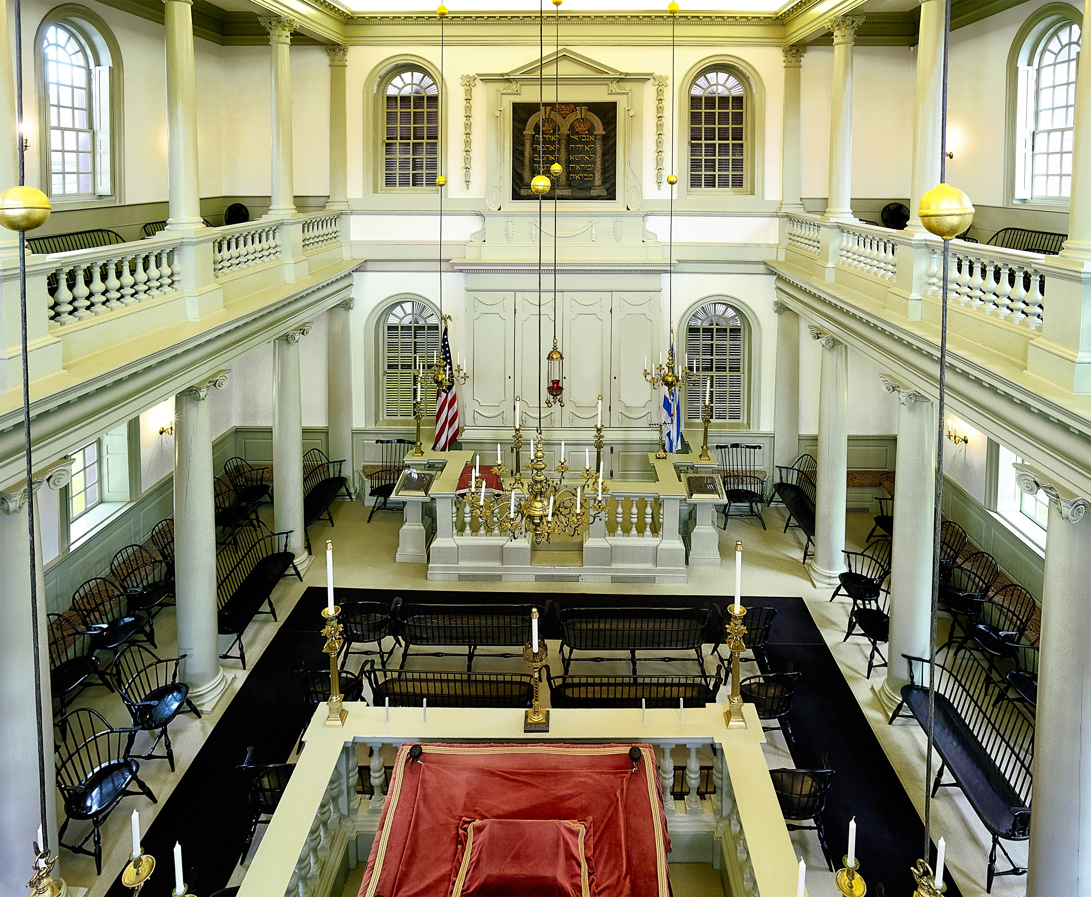 Touro Synagogue, Newport Rhode Island, Interior